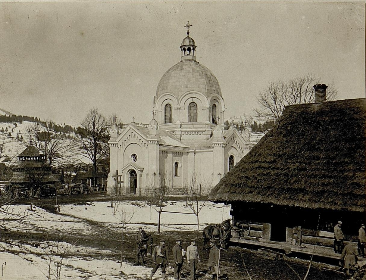 Churches in Skole Raion